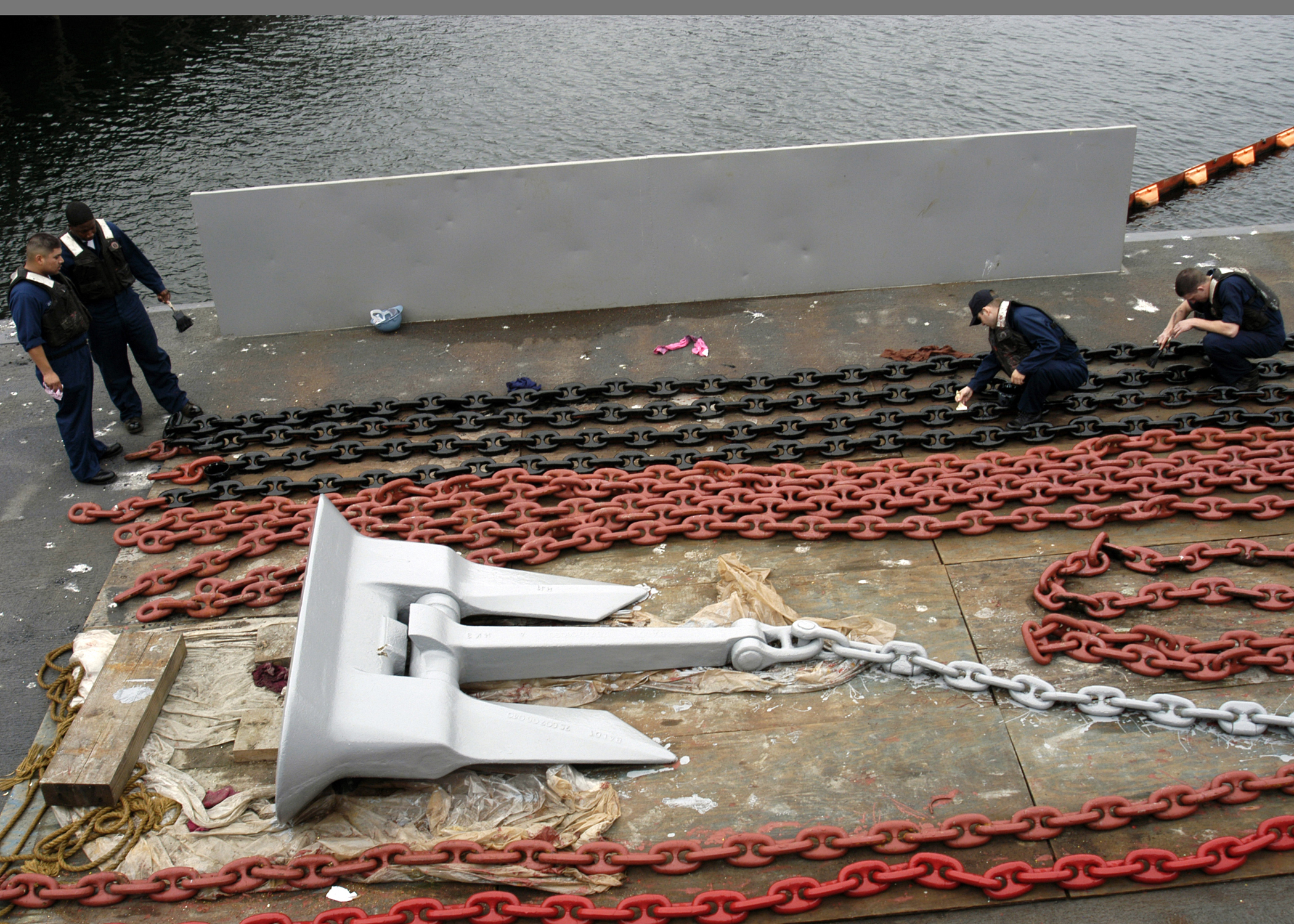 Everett, Wash. (May. 7, 2005) - Sailors assigned to the deck department aboard the guided missile frigate USS Ford (FFG 54) paint an anchor chain while in port at Naval Station Everett. Ford is currently preparing for their next scheduled deployment. U.S. Navy photo by Photographer's Mate 3rd Class Jacob J. Kirk (RELEASED)